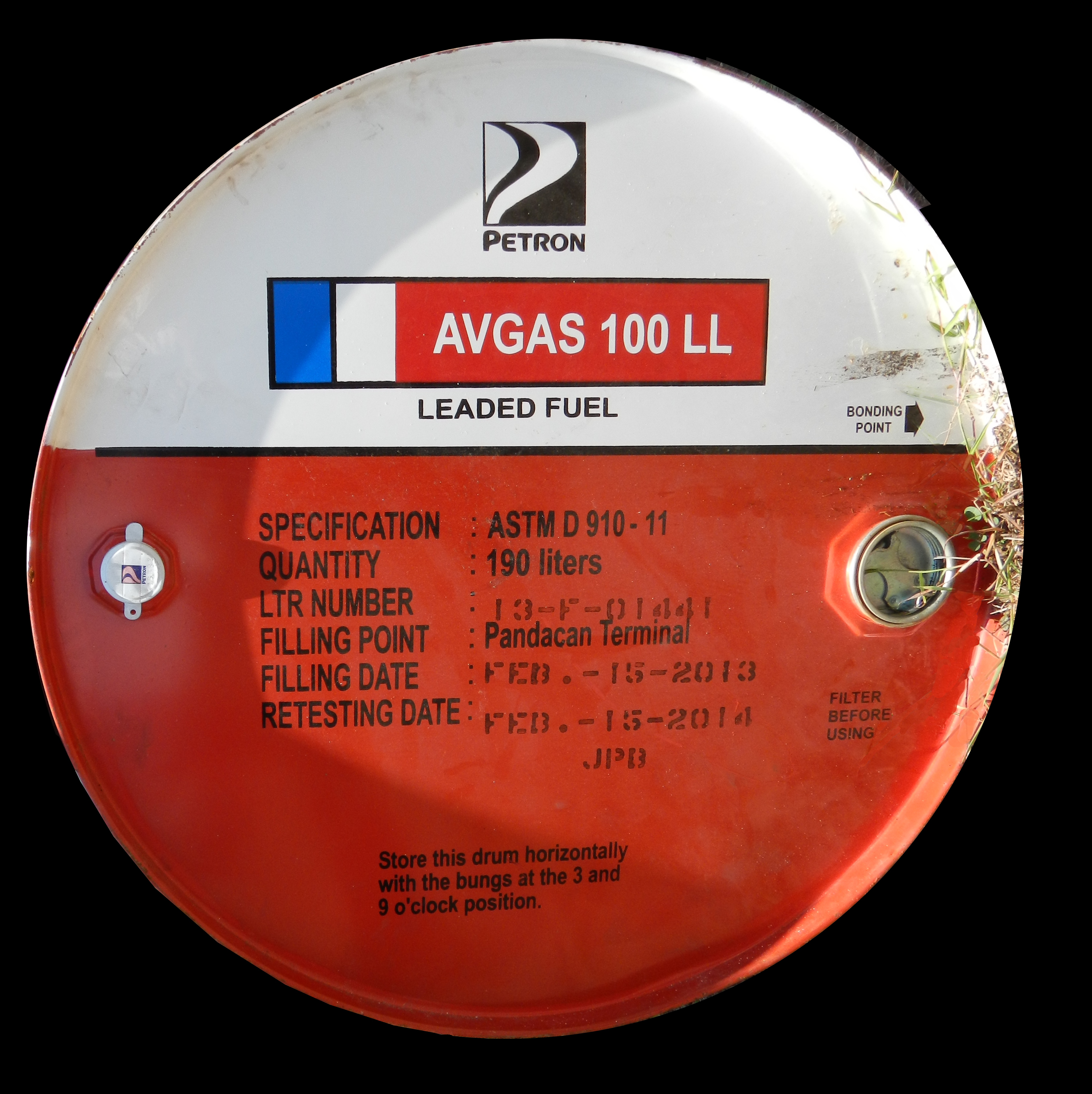 AVGAS 100 LL Petron Leaded fuel 190 liters ASTM D 910-11 - Avgas[1] (aviation gasoline, also known as aviation spirit in the UK) is an aviation fuel used to power piston-engine aircraft. Avgas is distinguished from mogas (motor gasoline), which is the everyday gasoline used in cars and some non-commercial light aircraft. Unlike mogas from the mid-1970s era onward to allow the adoption of platinum-content catalytic converters for pollution reduction, avgas still contains tetraethyllead (TEL), a toxic substance used to enhance combustion stability. crew and pilots in identifying and distinguishing the fuel grades. 100LL The most commonly used aviation fuel is 100LL, that is, "low lead". It is dyed blue and contains a relatively small amount of tetraethyllead—though the amount is greater than what was contained in many automotive grades of leaded fuel before such fuel was phased out.